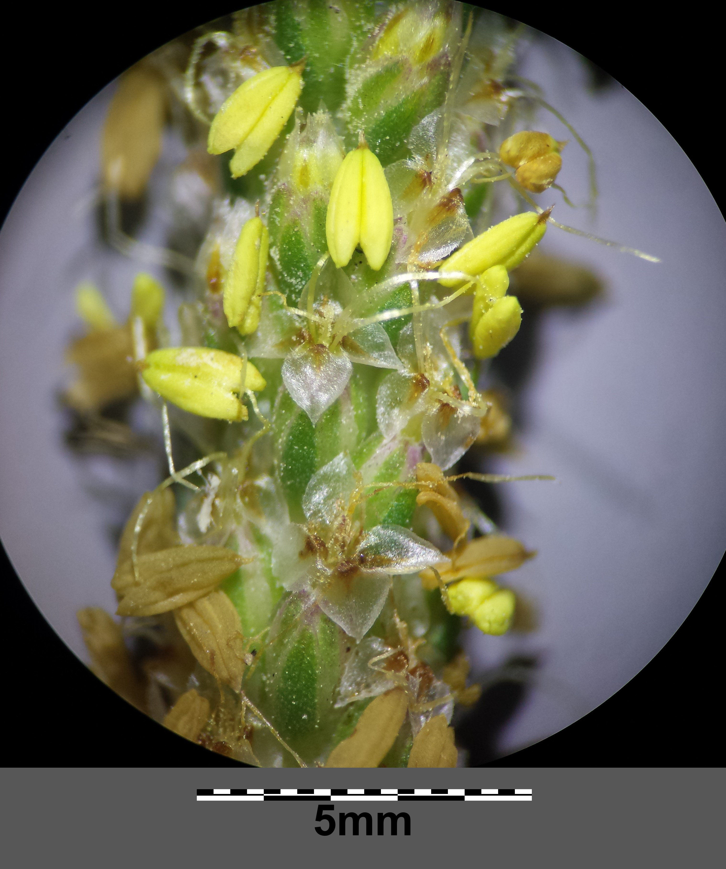 Inflorescence Taxonym: Plantago maritima ss Fischer et al. EfÖLS 2008 ISBN 978-3-85474-187-9 Location: next to Ziersdorf, district Hollabrunn, Lower Austria - ca. 225 m a.s.l. Habitat: salty verge